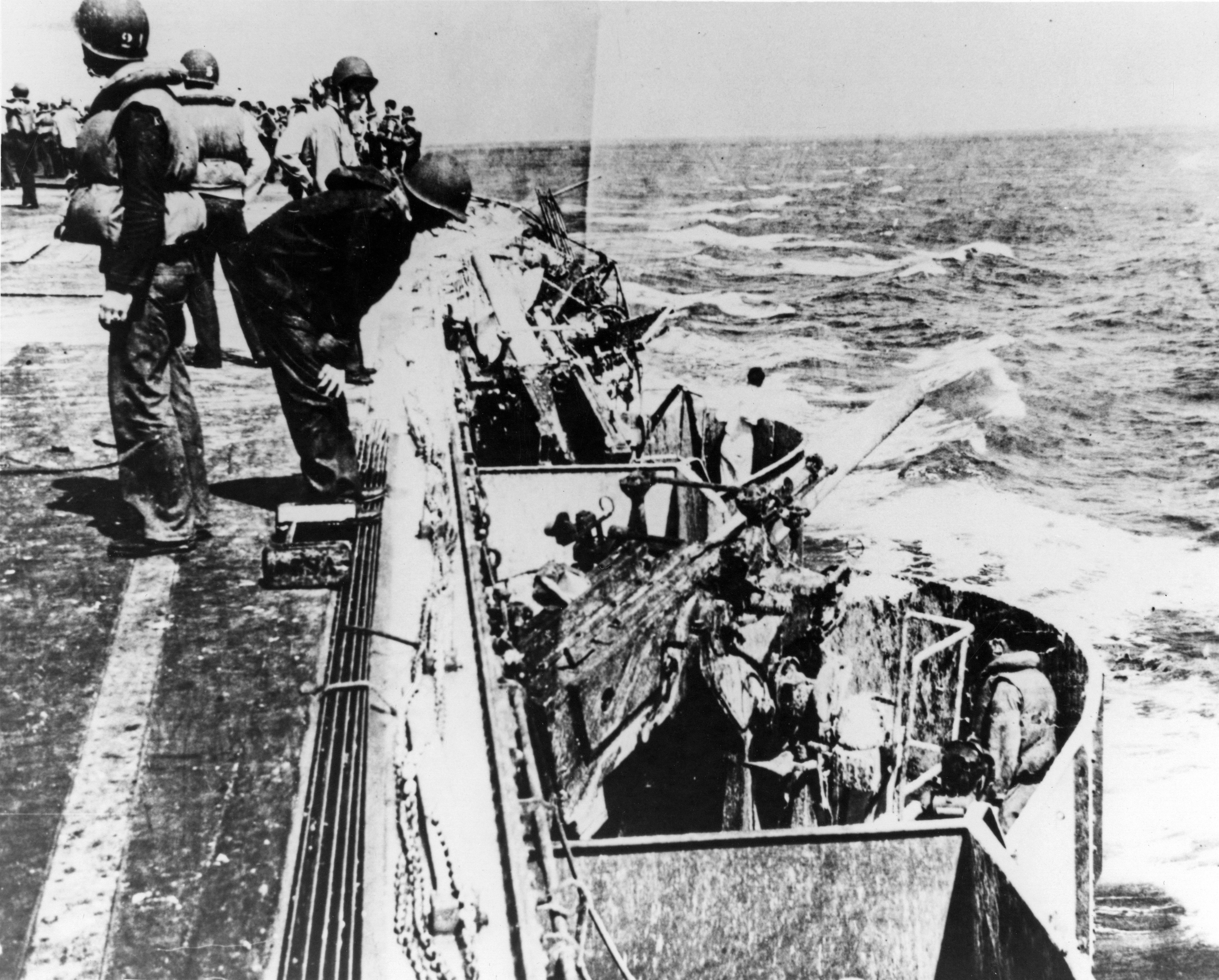 Damage in the port forward 127 mm gun gallery aboard the U.S. Navy aircraft carrier USS Lexington (CV-2), from a Japanese bomb that struck near the gallery's after end during the Battle of the Coral Sea, 8 May 1942. View looks aft, with the damaged number four 127 mm/25 gun in the foreground, trained to port and aft. The gun crew was killed by the explosion.